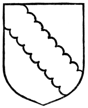 Fig. 67.—Bend invecked.